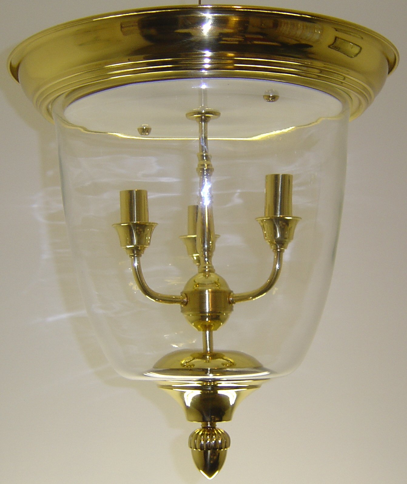 Ceiling light fixture